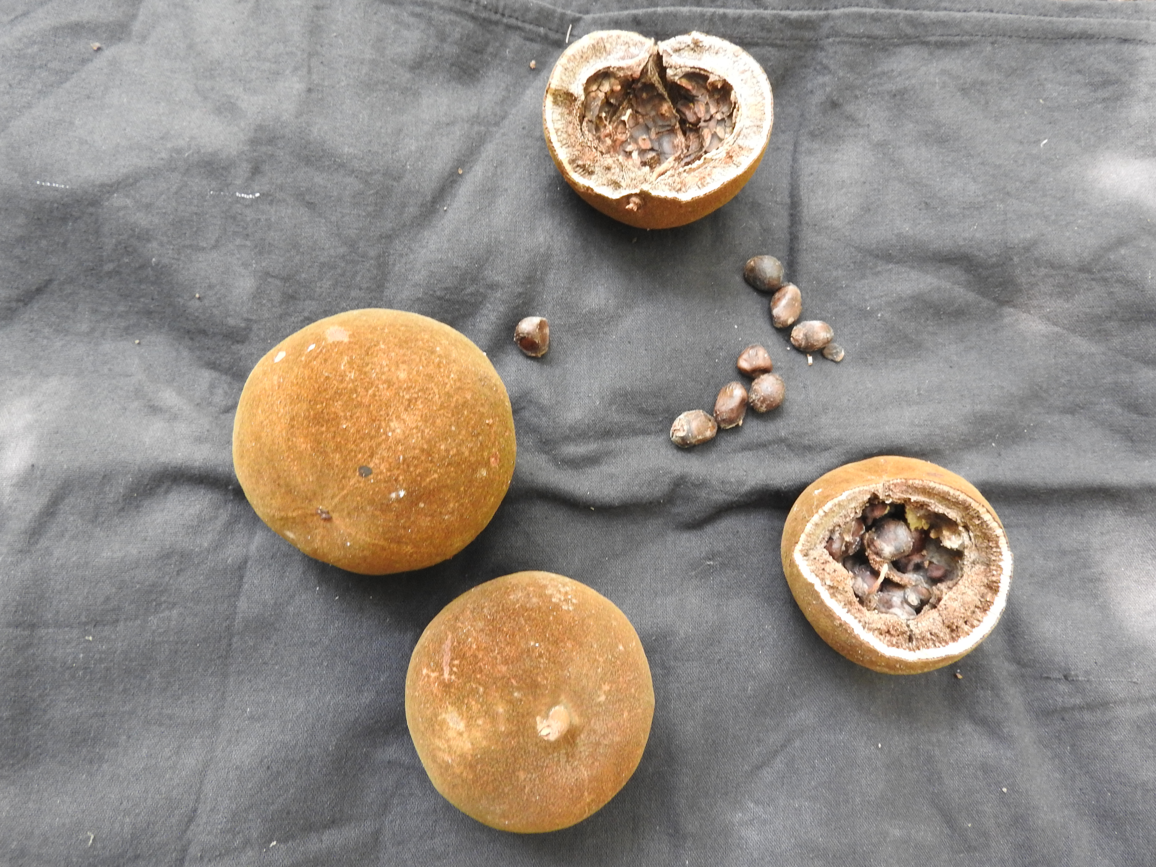 Flacourtiaceae-attuchankalai,kuranguthalai;tree,flowers yellowish white,fruits dark brown.